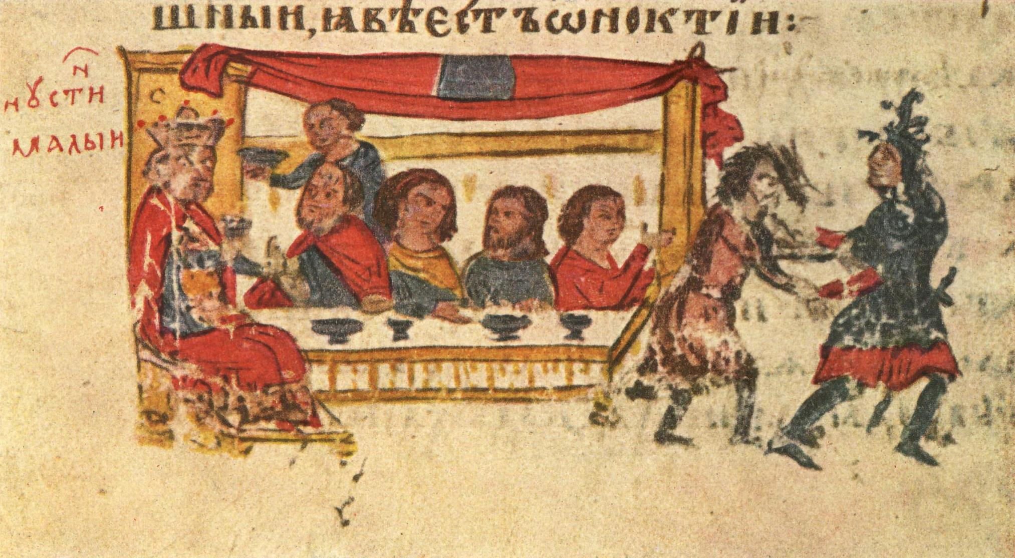 Miniature 39 from the Constantine Manasses Chronicle, 14 century: Punishment of the iniquitous relative of emperor Justin II.